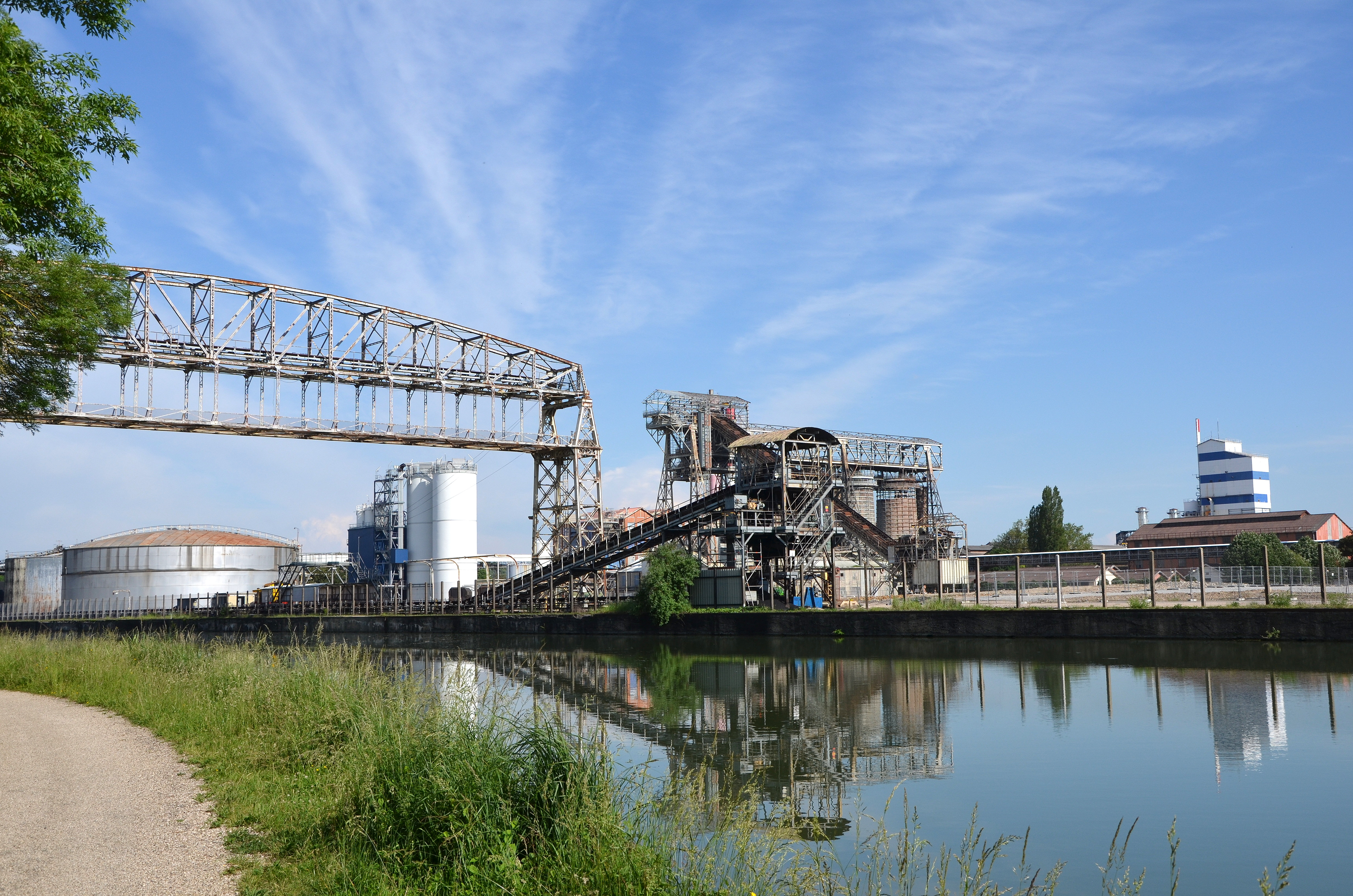 Chemical factory Solvay in Tavaux, Jura, Franche-Comté, France .